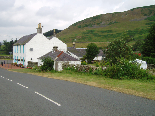 Bentpath. A small scattered village sloping down to the river Esk.